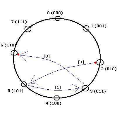 Simple example of P2P Koorde routing from Node2 to Node6 (3-dimensional De Bruijn graph).